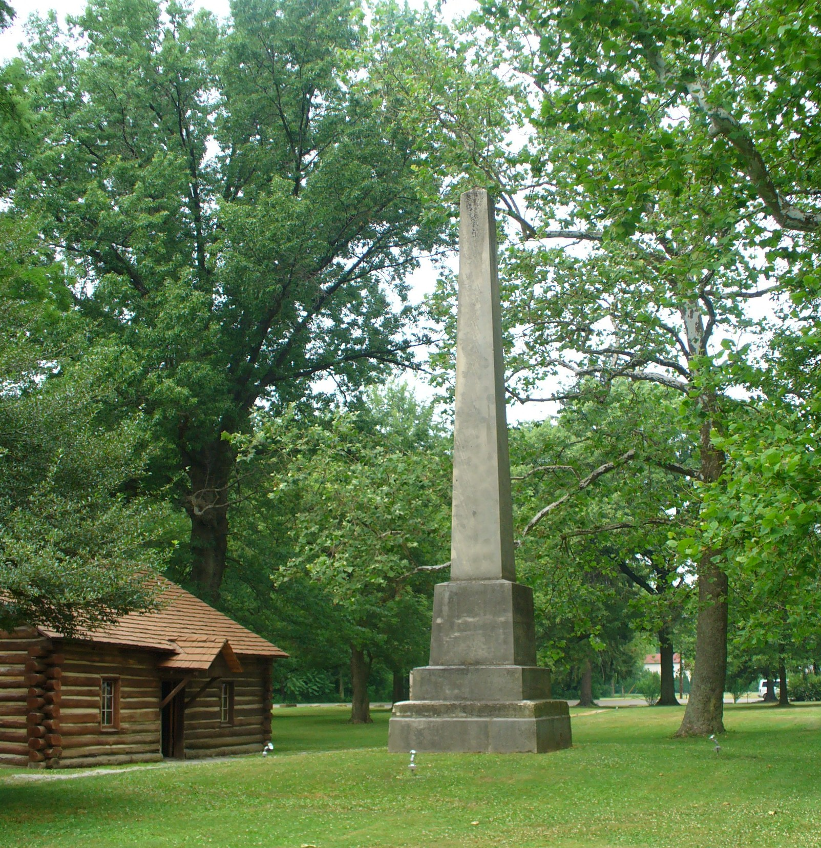 Monument at the Gnadenhutten Massacre Site, located in the cemetery at Gnadenhutten, Ohio, United States.